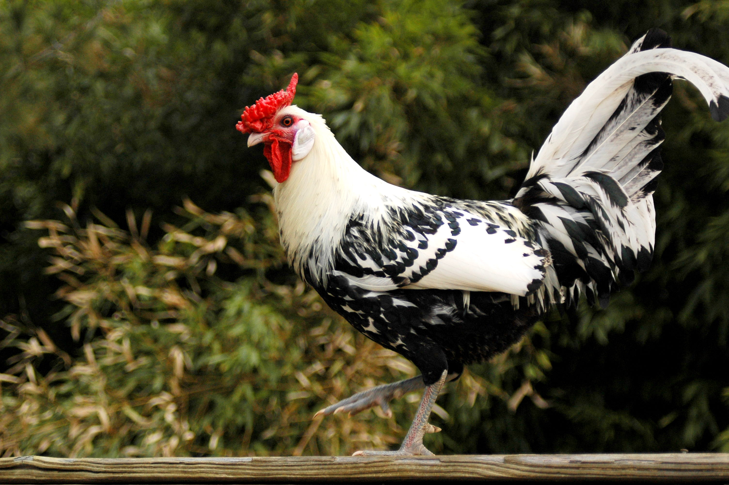 Sam, the late Silver-Spangled Hamburg.